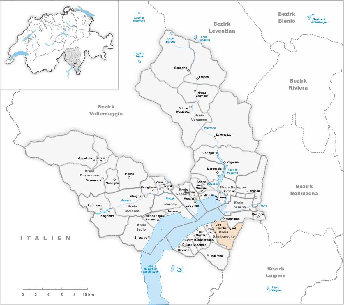 Municipality Vira (Gambarogno)